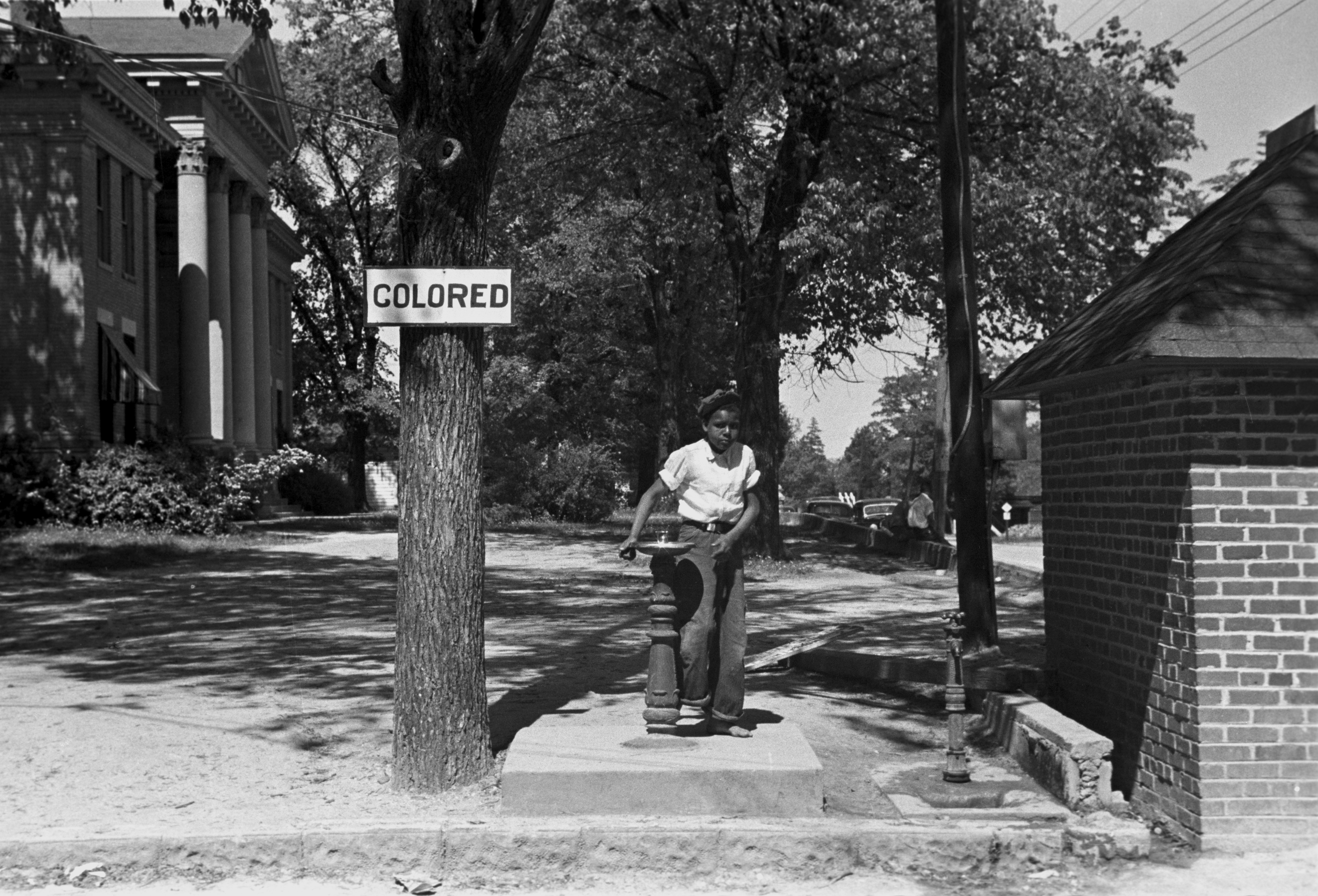 Drinking fountain on the county courthouse lawn, Halifax, North Carolina